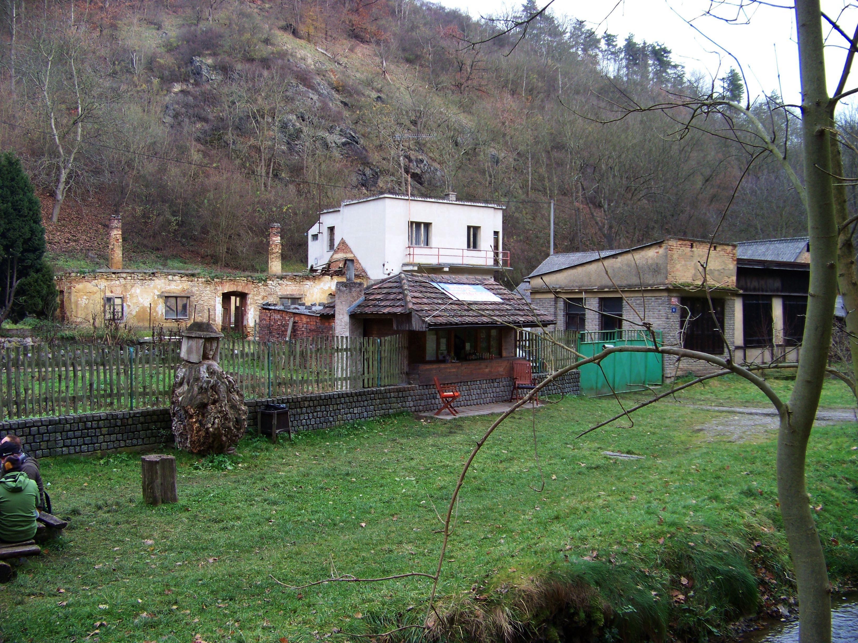 Prague-Dejvice, the Czech Republic. Vizerka, U Vizerky 2299/6.